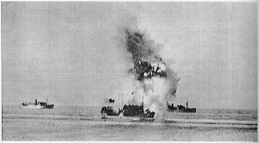 The tanker SS Ohio hit by torpedo in Malta Convoy, Operation 'PEDESTAL', 12th August 1942. She finally reached Malta safely.